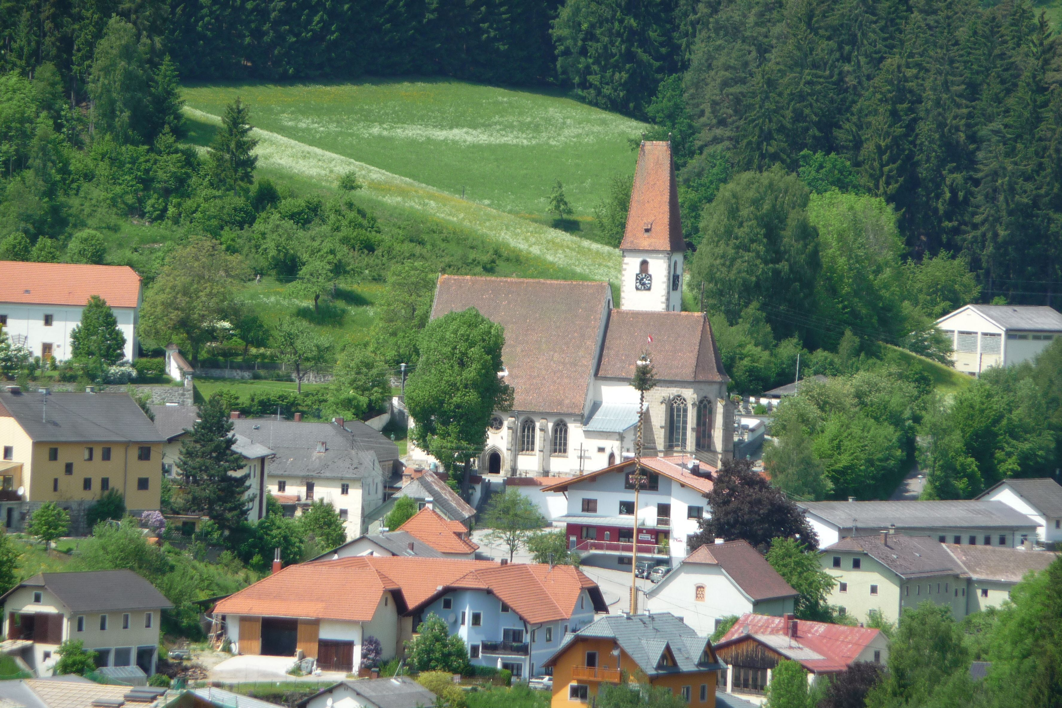 Parish Church Hirschbach im Mühlkreis